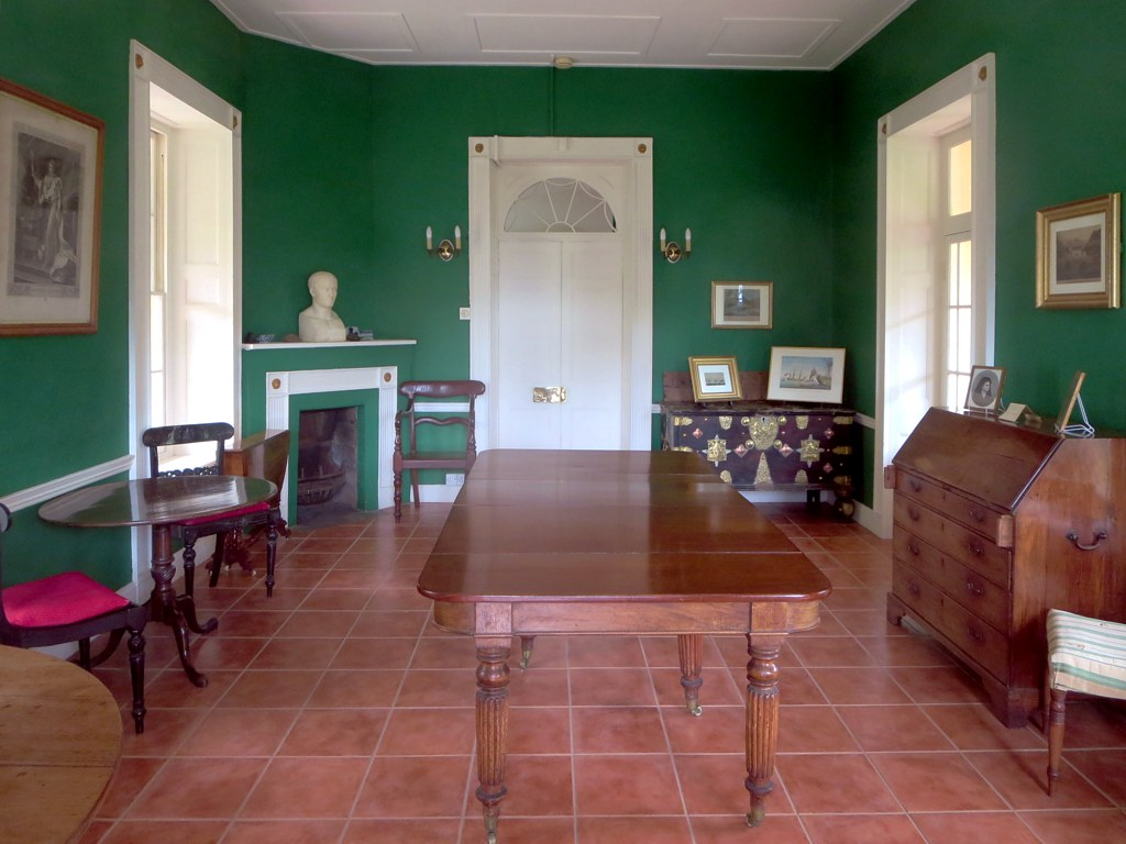 Briars Pavilion, Napoleon Bonaparte's first home on St Helena Island, is now a museum sponsored by the French government.